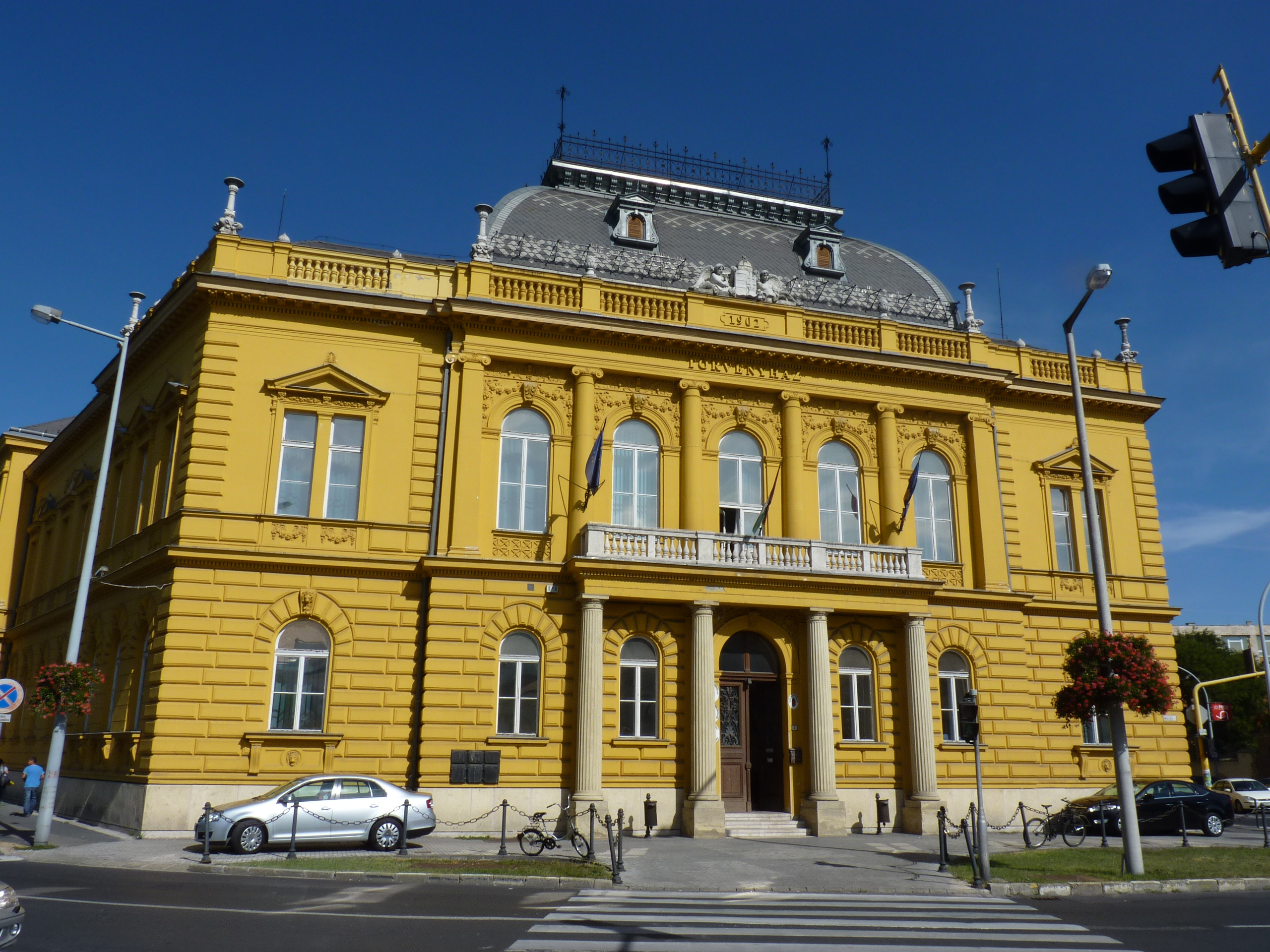 Fejér County Court, Székesfehérvár